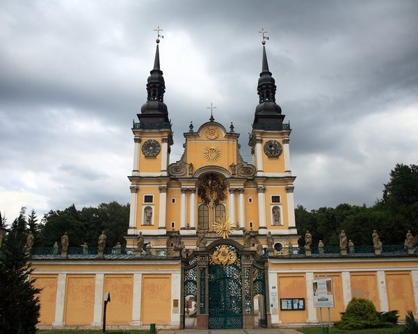 Święta Lipka, (Poland, Warminian-Masurian Voivodship), view of sancturay of St. Mary